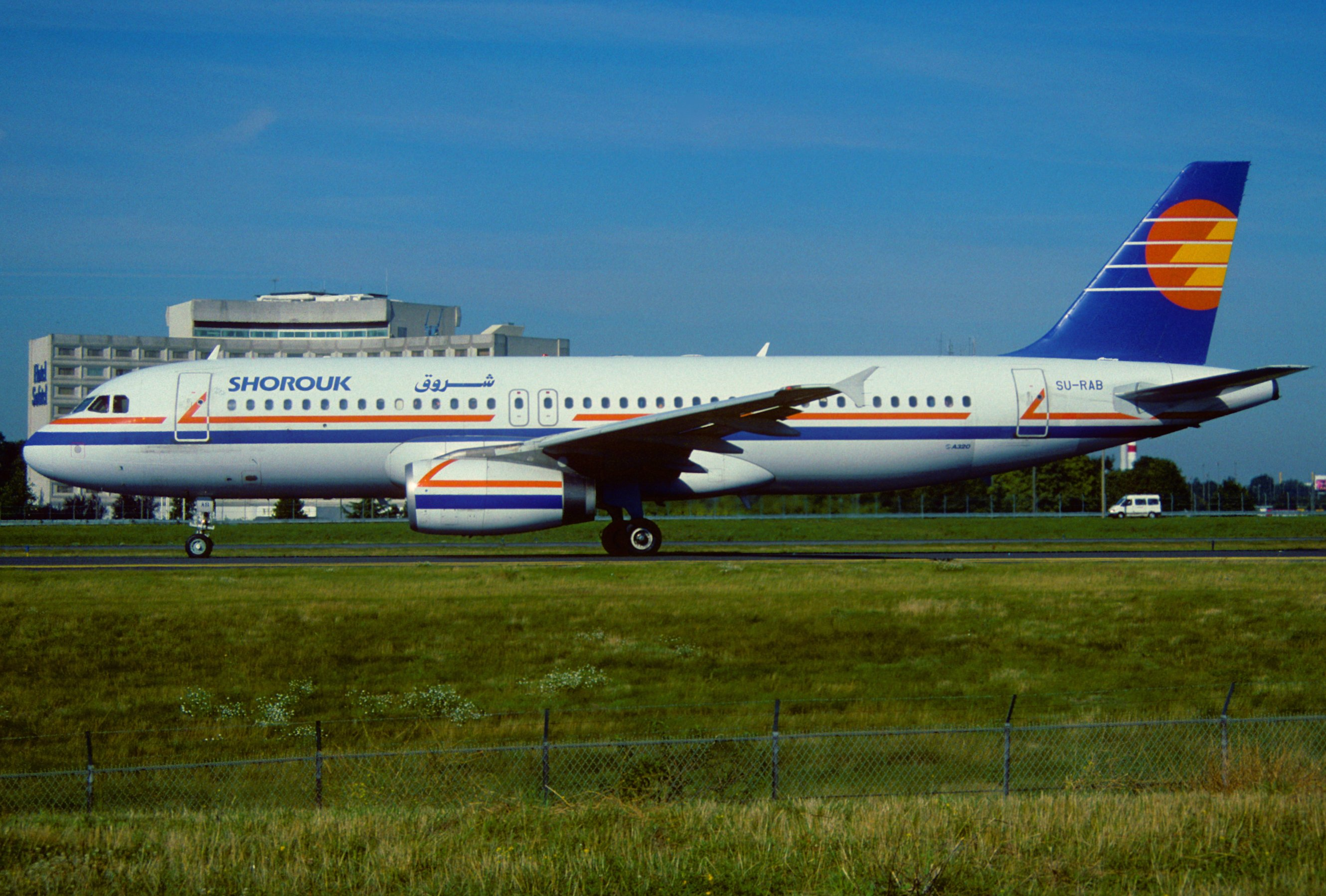 This Airbus A320 took its first flight on April 27, 1992... 29/09/1992 Shorouk Air SU-RAB 20/04/1994 Transalsace SU-RAB 15/06/1994 Onur Air SU-RAB 01/11/1994 Shorouk Air SU-RAB 01/09/1995 Albanian Airlines SU-RAB 28/09/1996 Shorouk Air SU-RAB Ceased operations mid 2003 01/09/2004 Indian Airlines VT-EYG lsd from Debis AirFinance 24/08/2007 Air India VT-EYG Stored 02/2010